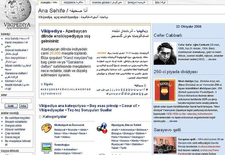 Az wikipedia, both Latin and Arabic based scripts exist on main page almost equal. 20000 Articles of Az wikipeda